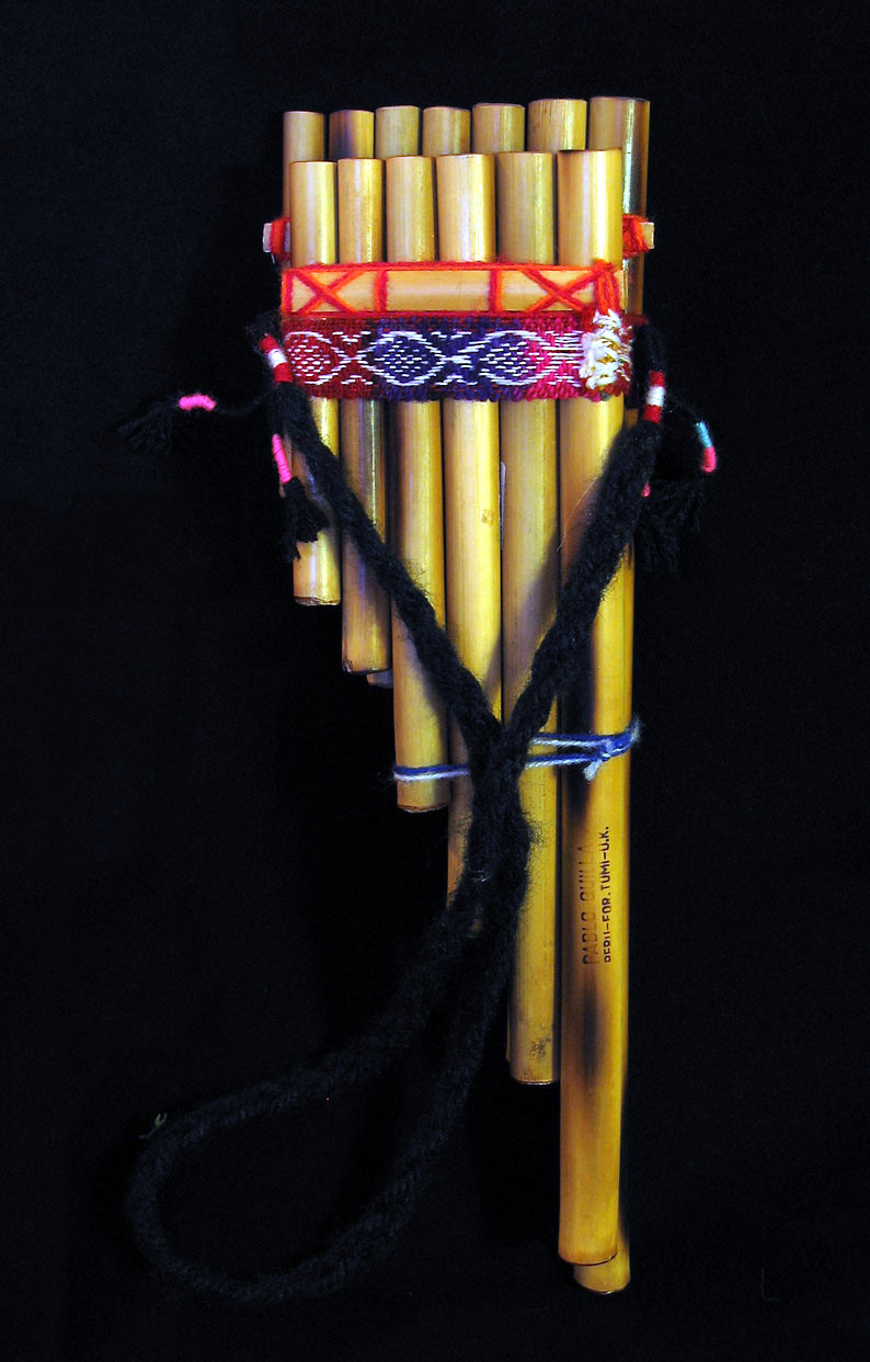 Pan pipes from Chile. These pan pipes are probably not the best quality, but do play adequately. The pipes are made from bamboo and are tuned to a major scale, covering approximately 1.5 octaves. Keywords: Pan pipes, musical instrument, bamboo.